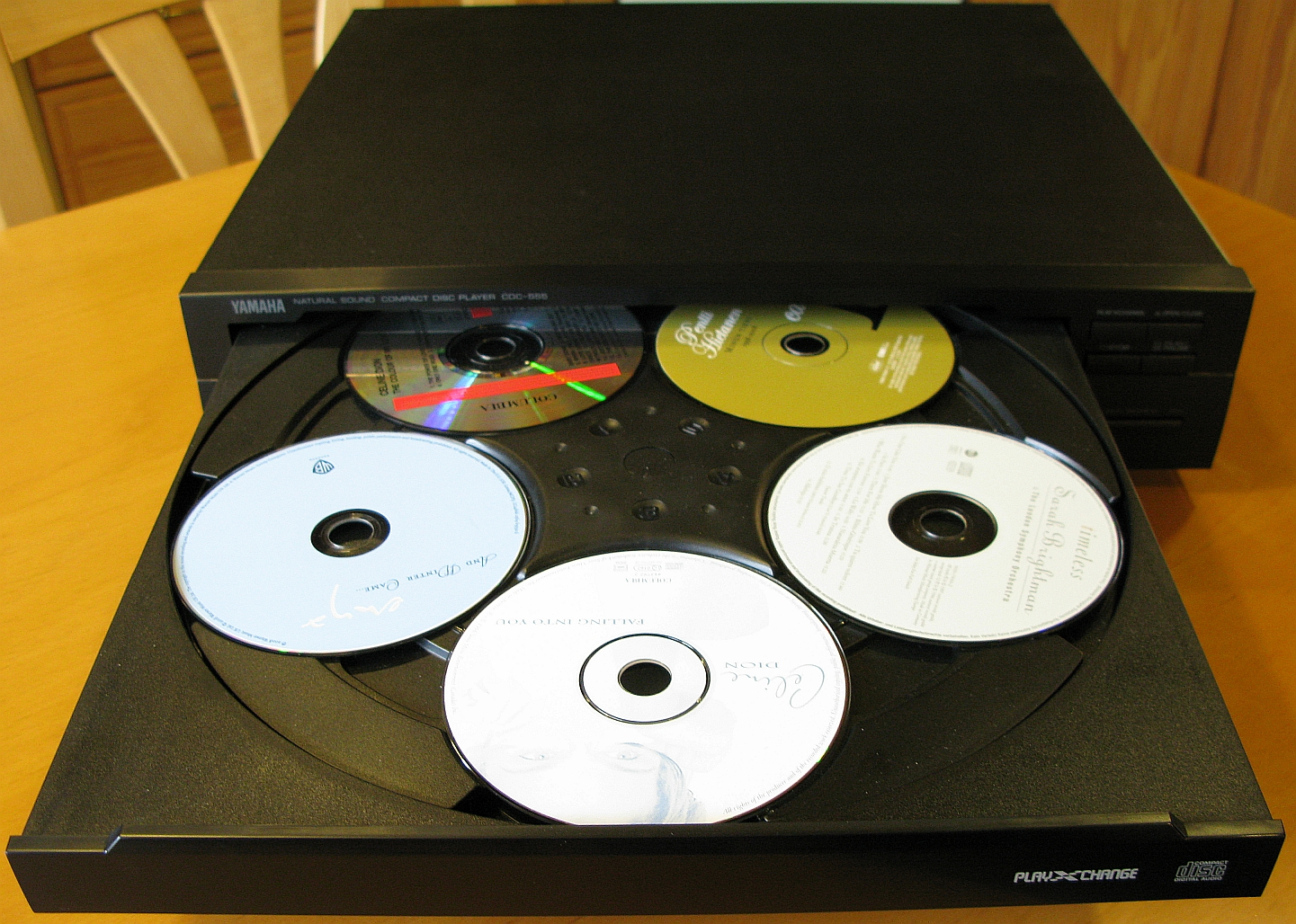 YAMAHA CDC-555 5 Disc CD Player Turntable opened while there is no record playing.